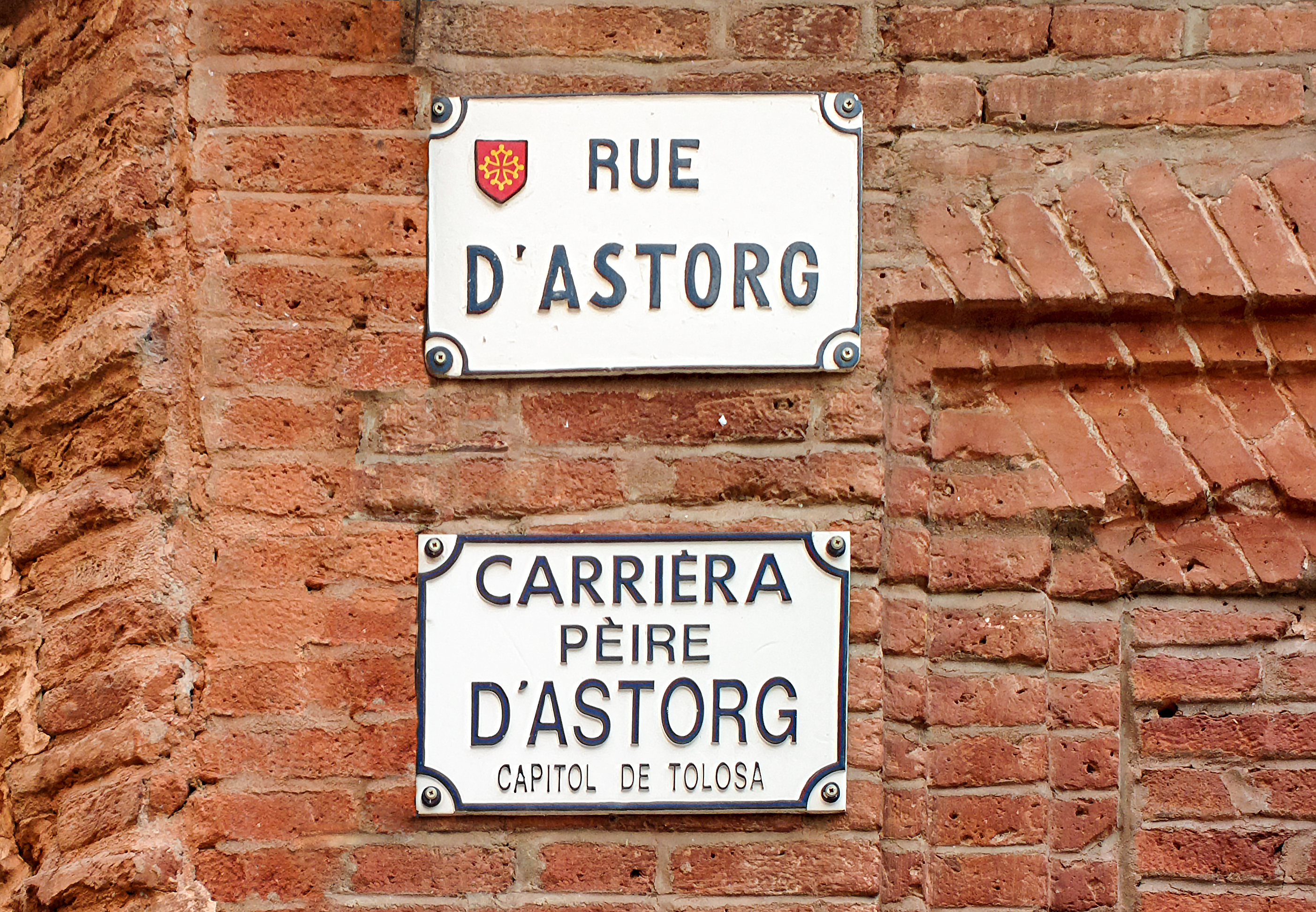 Street name sign in Toulouse. They have the particularity of being: in French and Occitan. ' 'Rue d'Astorg.